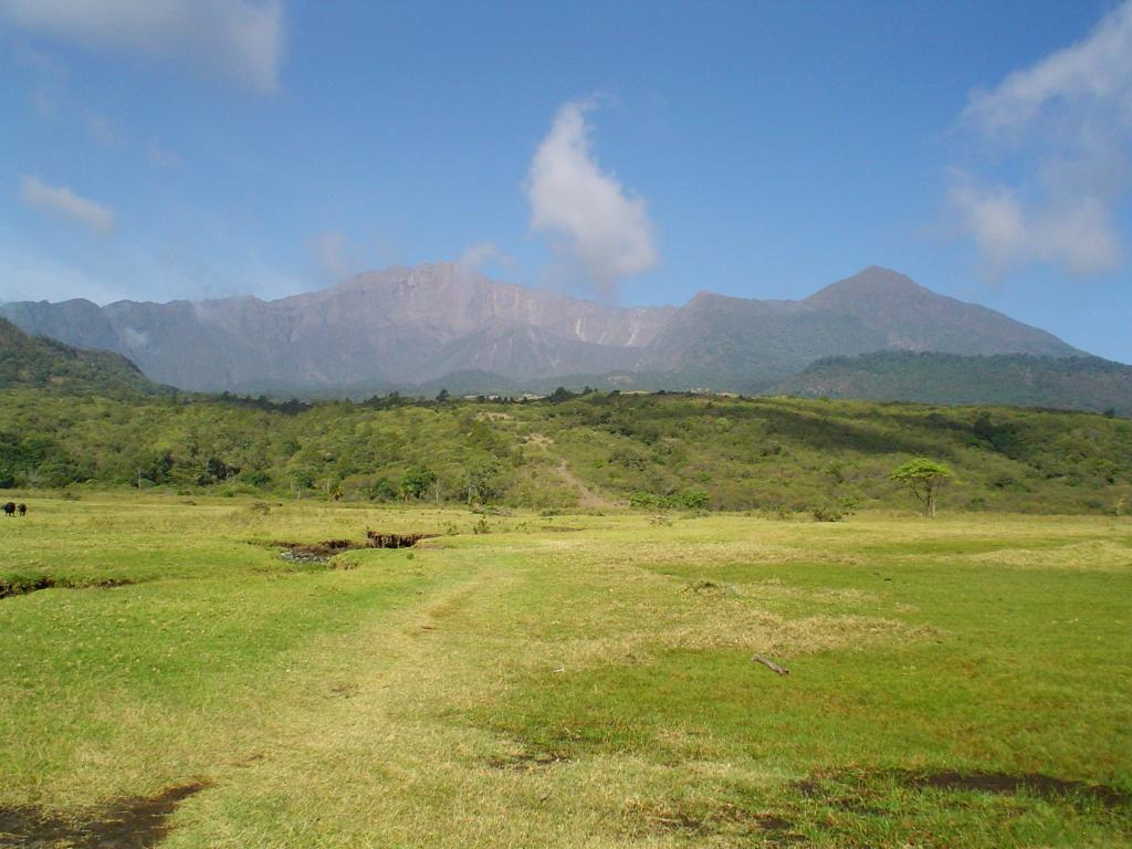 View on Mt Meru (4566m) taken from Momella gate. The Ash cone can be seen in the middle of the horseshoe shaped crater. The Little Meru (3820m) is on the right.